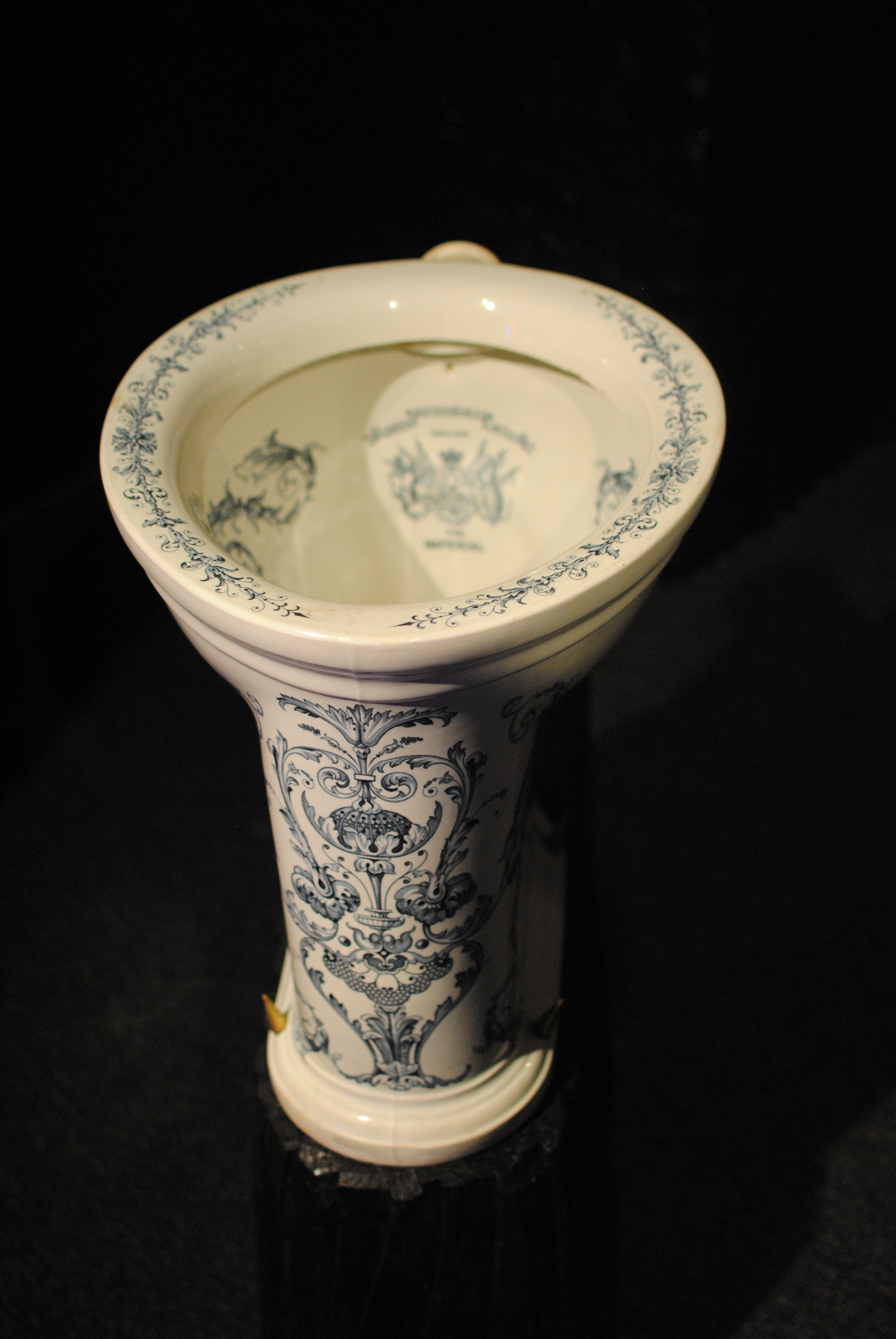 in the Powerhouse Museum, Sydney, NSW, Australia. [Camera's clock set to UTC]